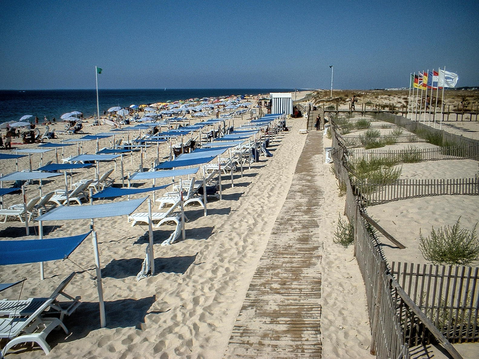 Barril beach, Tavira, Portugal